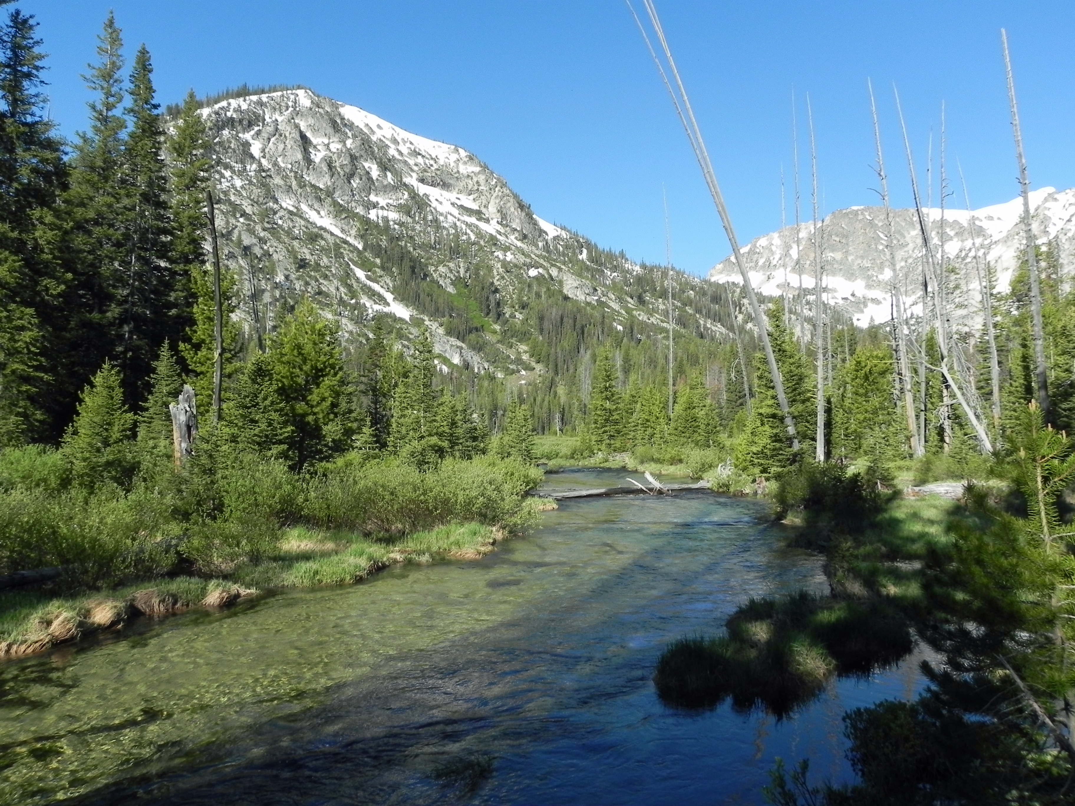 Iron Creek in Sawtooth National Recreation Area Custer County, Idaho